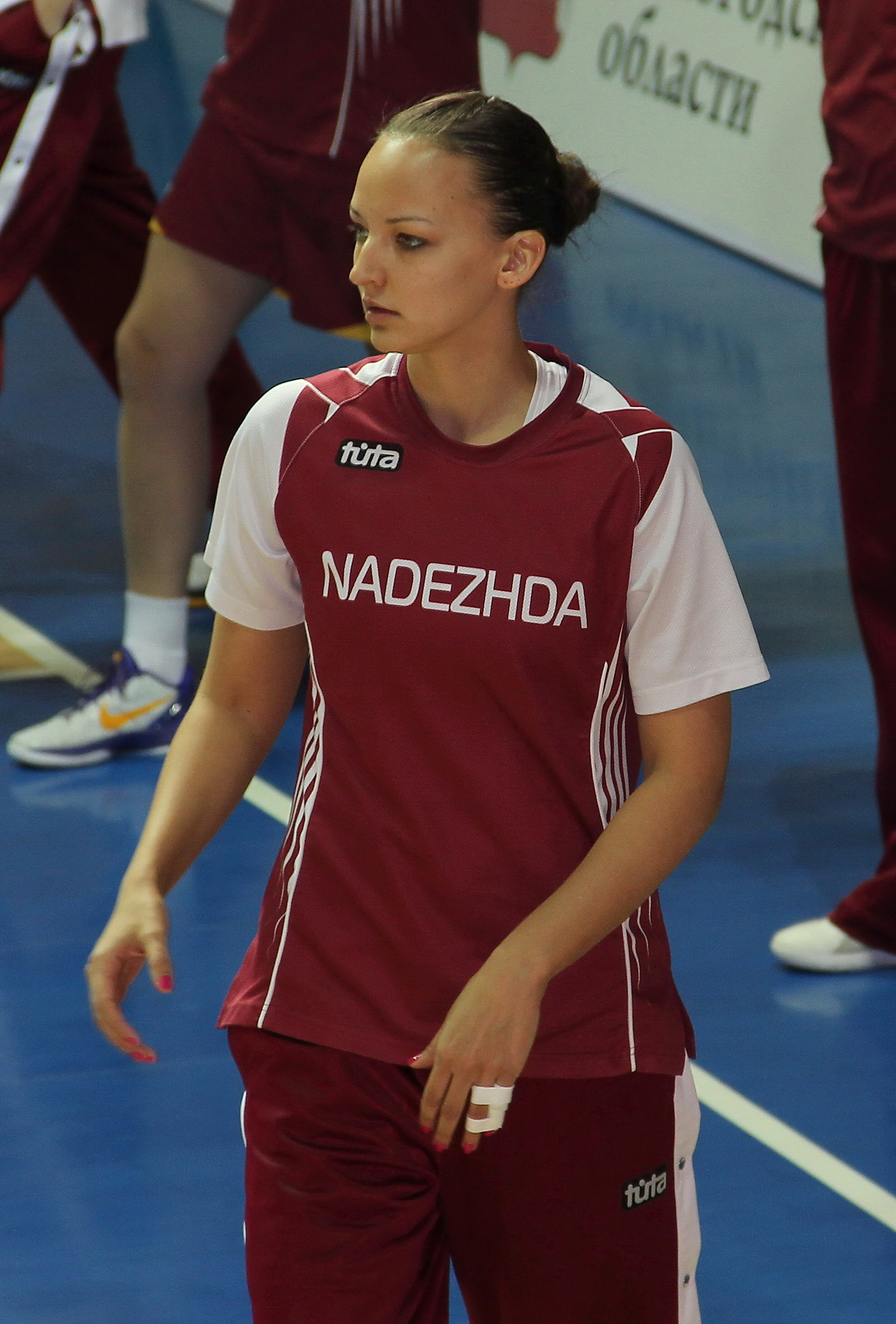 Russia, Vologda, Elena Danilochkina in game «Vologda-Chevakata» vs «Nadezhda» (Orenburg)